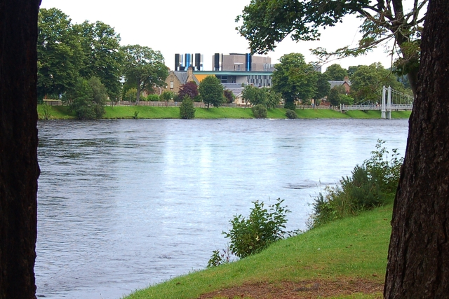 Eden Court The Eden Court theatre , on the west bank of the Ness, is undergoing major refurbishment and extension in 2007. This is a view from the north of the Ness Islands.